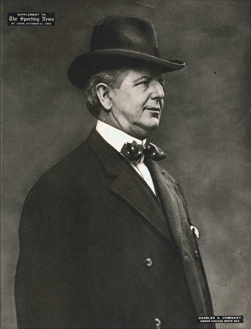 Charles Comiskey